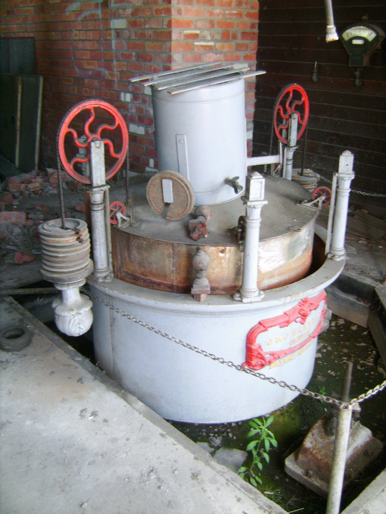 One of 2 Braddock Gasometers in the Governor Cottage at the Launceston Gasworks, Tasmania